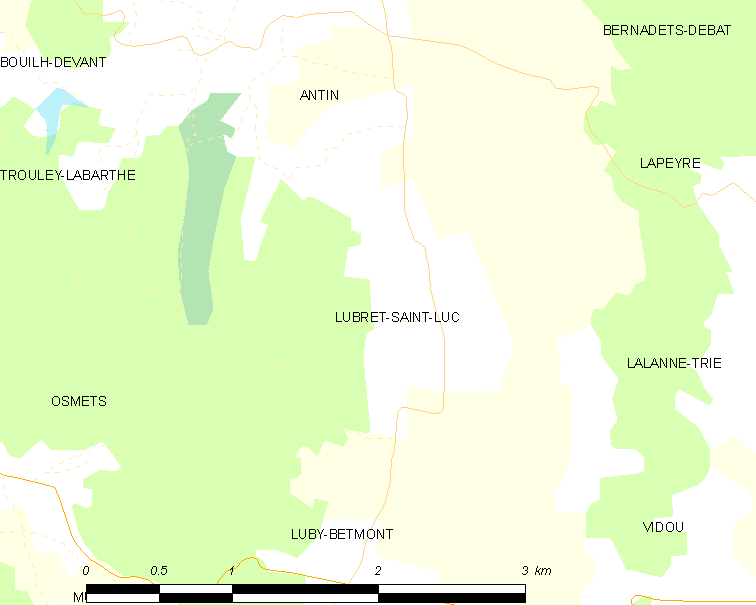 Map of French municipality